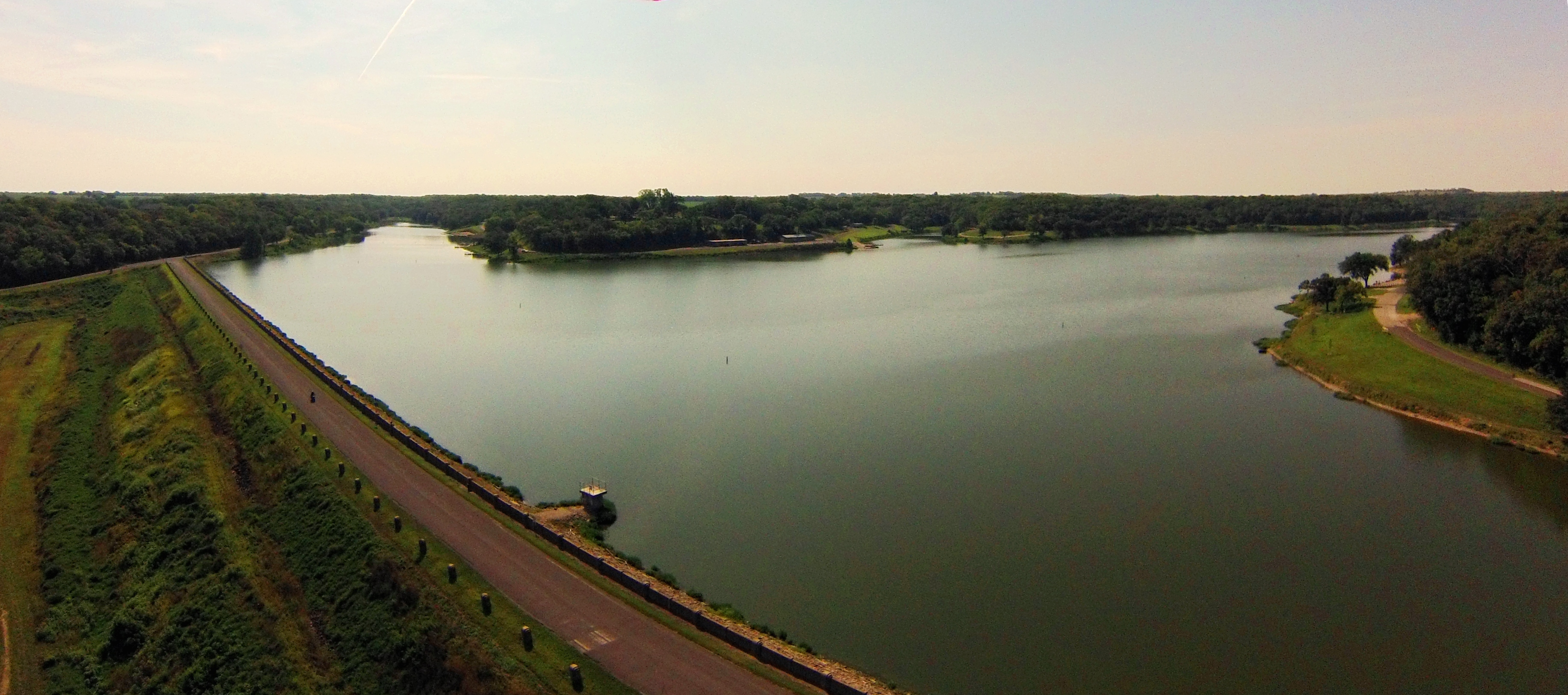 A view of the dam of Lone Star Lake taken from an RC plane